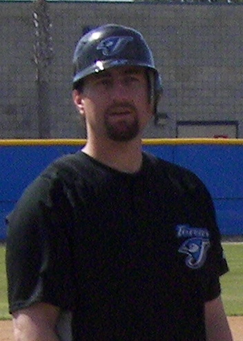 Toronto Blue Jays catcher Jason Phillips during a spring training workout at the Blue Jays' spring training complex in Dunedin, Florida.